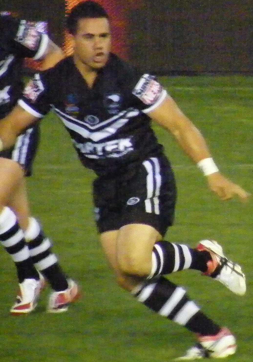 RLWC 2008 - England v New Zealand at Newcastle. England interchange Ben Westwood.